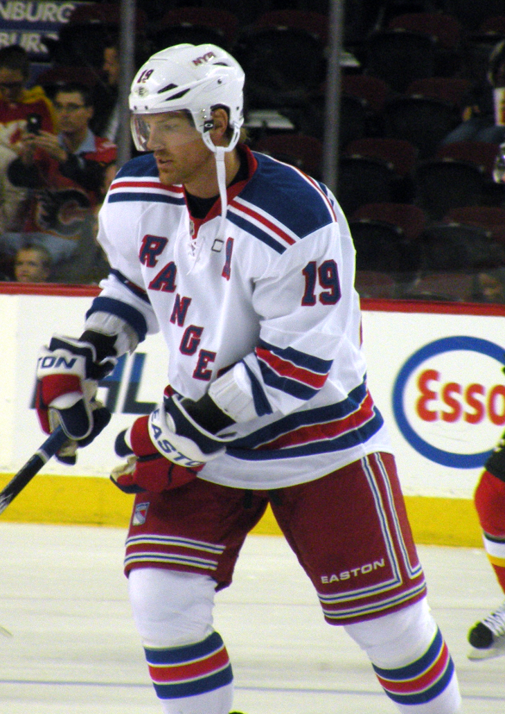 New York Rangers forward Brad Richards prior to a National Hockey League game against the Calgary Flames, in Calgary.